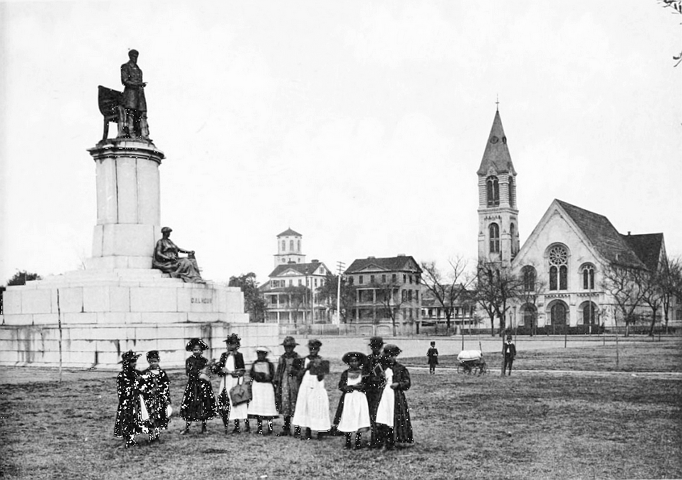 In this 1892 photograph of Marion Square, the first version of a memorial to John C. Calhoun is seen; it was later replaced.